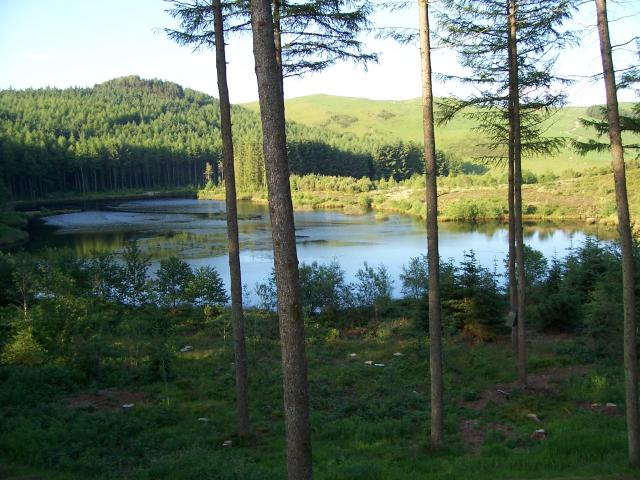 Bwlch Nant Yr Arian. Bwlch Nant Yr Arian Visitor Centre is located on the A44 between Aberystwyth and Llangurig. Red Kite feeding can be enjoyed every day at 3pm(2pm winter), offering spectacular views of the birds in a wild and wonderful setting. Two scenic waymarked walks with breathtaking views begin at the Visitor Centre, as does the All Ability Lakeside Trail giving everyone the opportunity to enjoy the natural beauty of the area. The centre also has three single track mountain bike routes offering epic rides for the more adventurous, and two waymarked horse routes.